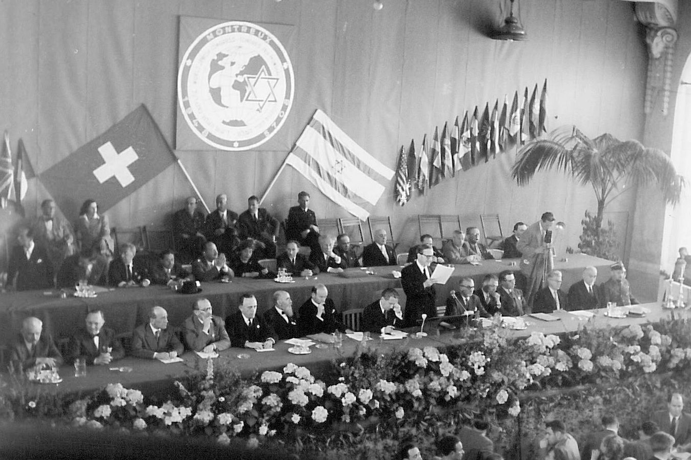 WJC President Stephen S. Wise addresses delegates at the Second Plenary Assembly of the World Jewish Congress in Montreux, Switzerland